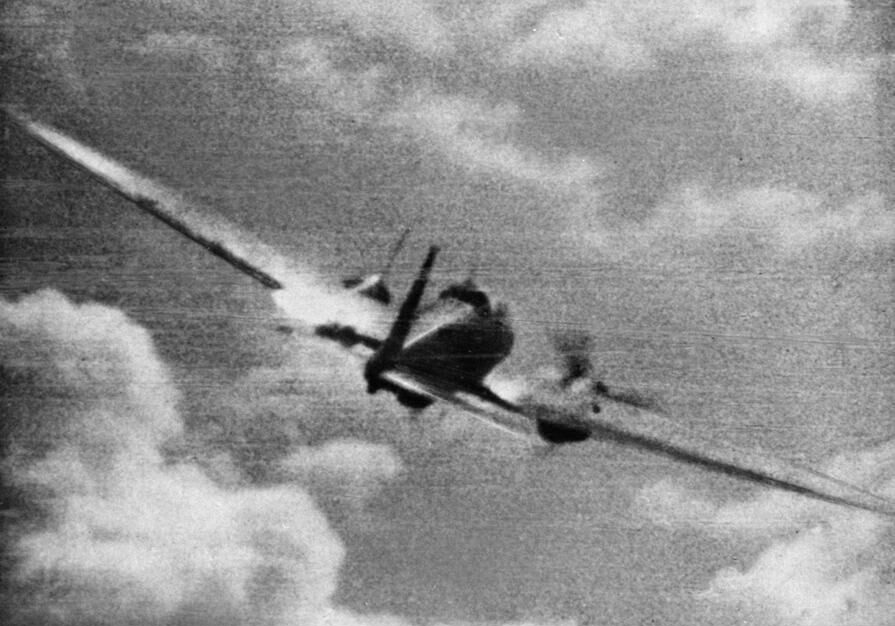 A still from camera gun footage taken from a Supermarine Spitfire Mark I of No. 609 Squadron RAF flown by Pilot Officer R.F.G. Miller, showing a Heinkel He 111 of KG 53 or KG 55 taking hits in the port engine from Miller's machine guns. The aircraft was one of a force which bombed the Bristol Aeroplane Company's factory at Filton, Bristol. Miller was killed two days later when he collided head on with a Messerschmitt Me 110 of III/ZG 26 over Cheselbourne, Dorset.